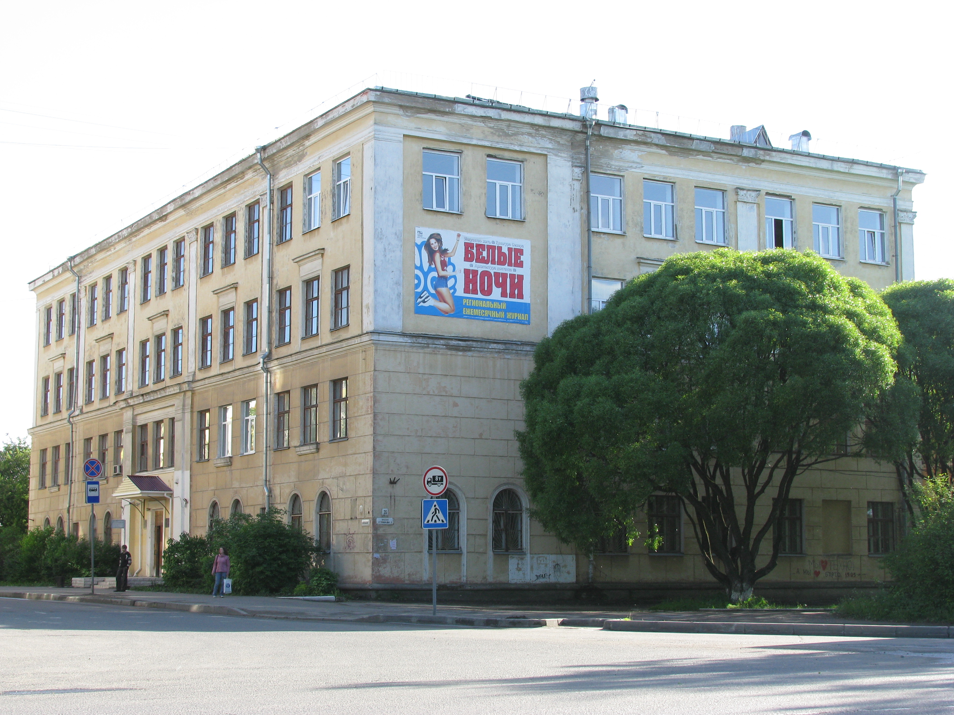 Vologda STU building at Prospekt Pobedy, 35 in Vologda